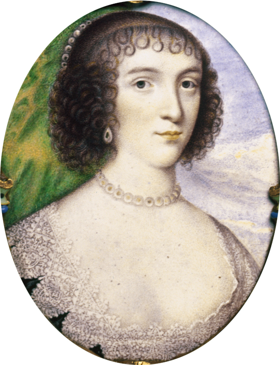 Caption from the museum's website Venetia Stanley, Lady Digby, died in 1633, eight years after marrying Sir Kelm Digby at the age of 21. This portrait, signed and dated 1637, was completed after her death and is based on an earlier miniature painted in opaque watercolor by Peter Oliver (1594-1648). An inscription in Latin on the back describes the grief felt by her husband: "He tries to snatch a ghost from the funeral pyre and fights a battle with death, exhausting the skills of the artists. Everywhere he searches for thee - O, the bitterness of it - on piece of metal." Digby was in Paris in 1635-36 and probably commissioned the piece at that time. The stunning frame by Gilles Légaré (d. 1663) exemplifies a further aspect of French enamel work of the period. Henri Toutin was the first artist to exploit a new technique for painting with enamel developed by his father in 1632 that permitted both more refined detail and translucent colors on a white ground, suggesting the qualities of a delicate watercolor portrait. See most recently D. Scarisbeck, Portrait Jewels, Opulence & Intimacy from the Medici to the Romanovs (2011), p. 106, ill.